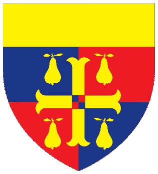 Shield of arms of Sir Alfred William Michael Davies